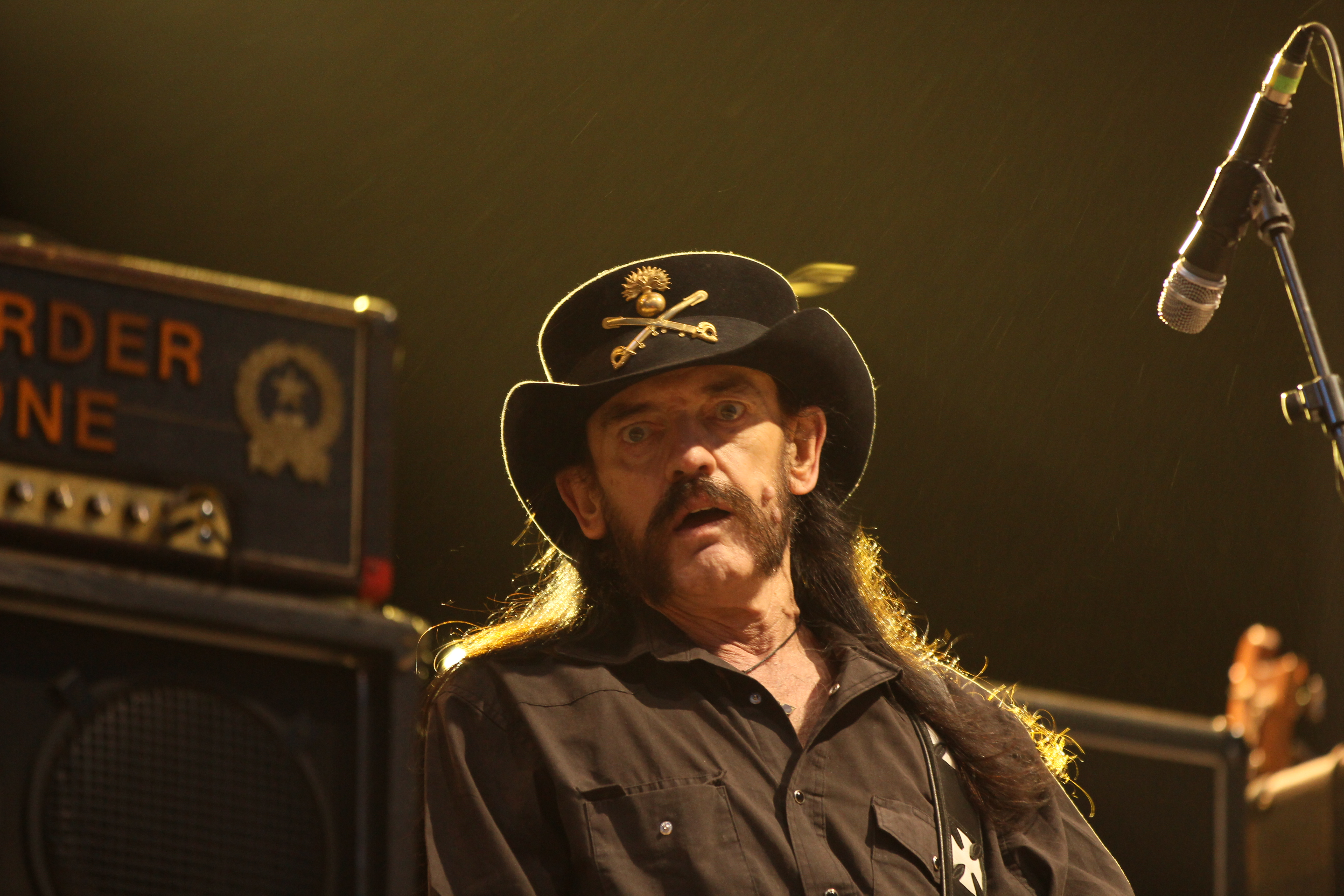 The English heavy metal band Motörhead at the With Full Force festival 2014 in Roitzschjora/Germany